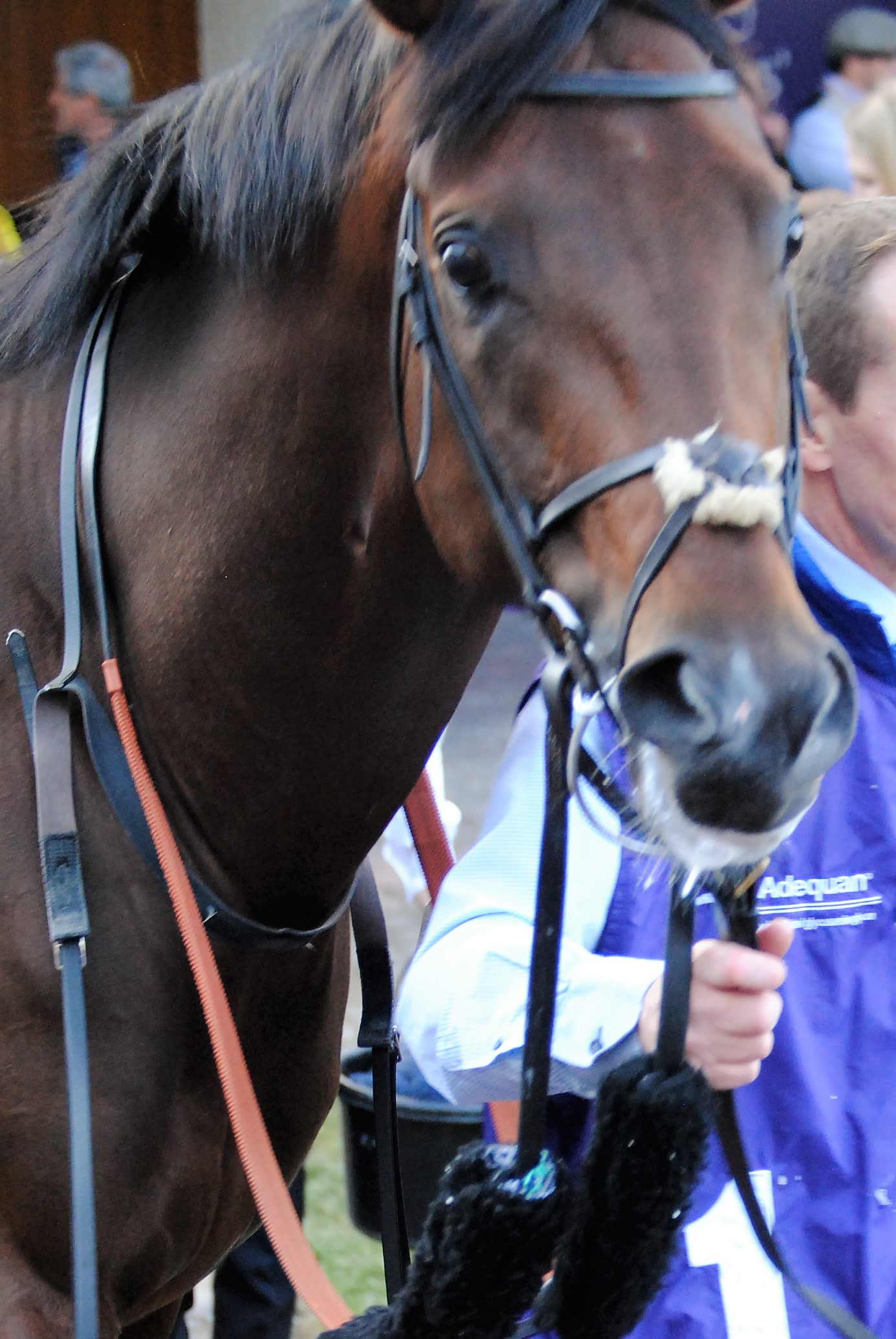 Thunder Snow at the 2018 Breeders' Cup